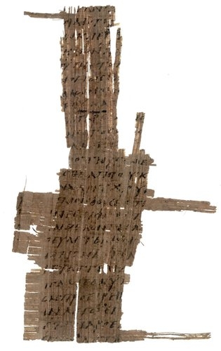 Papyrus 51 recto